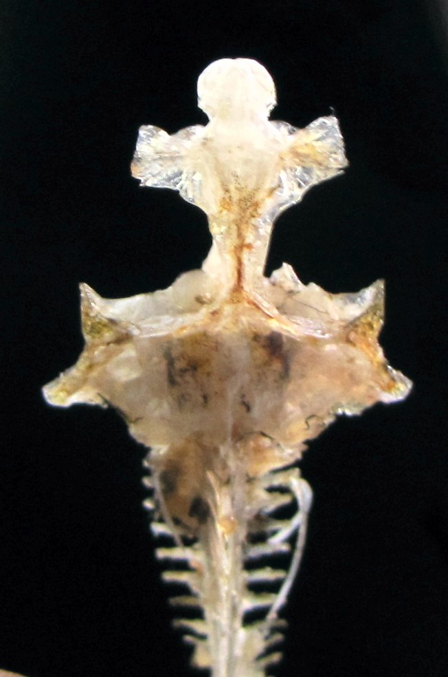 Goby cross-shaped bone